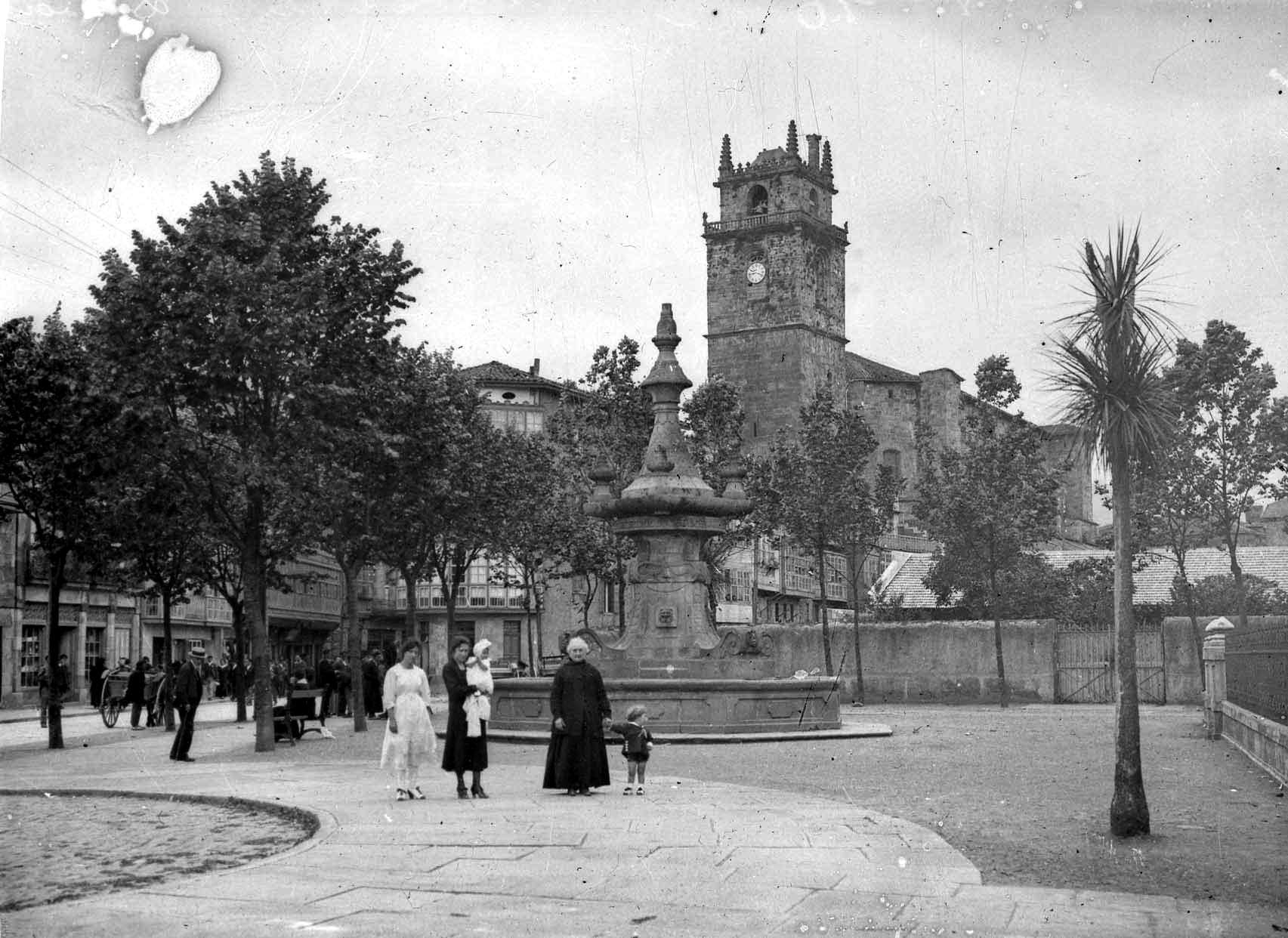 Santa Maria church (Durango, Biscay, Basque Country) in the early 20th century